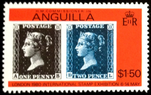 Anguilla $1.50 London 1980 stamp.